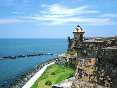 Castle of El Morro, Santiago de Cuba. With stone bartizans.